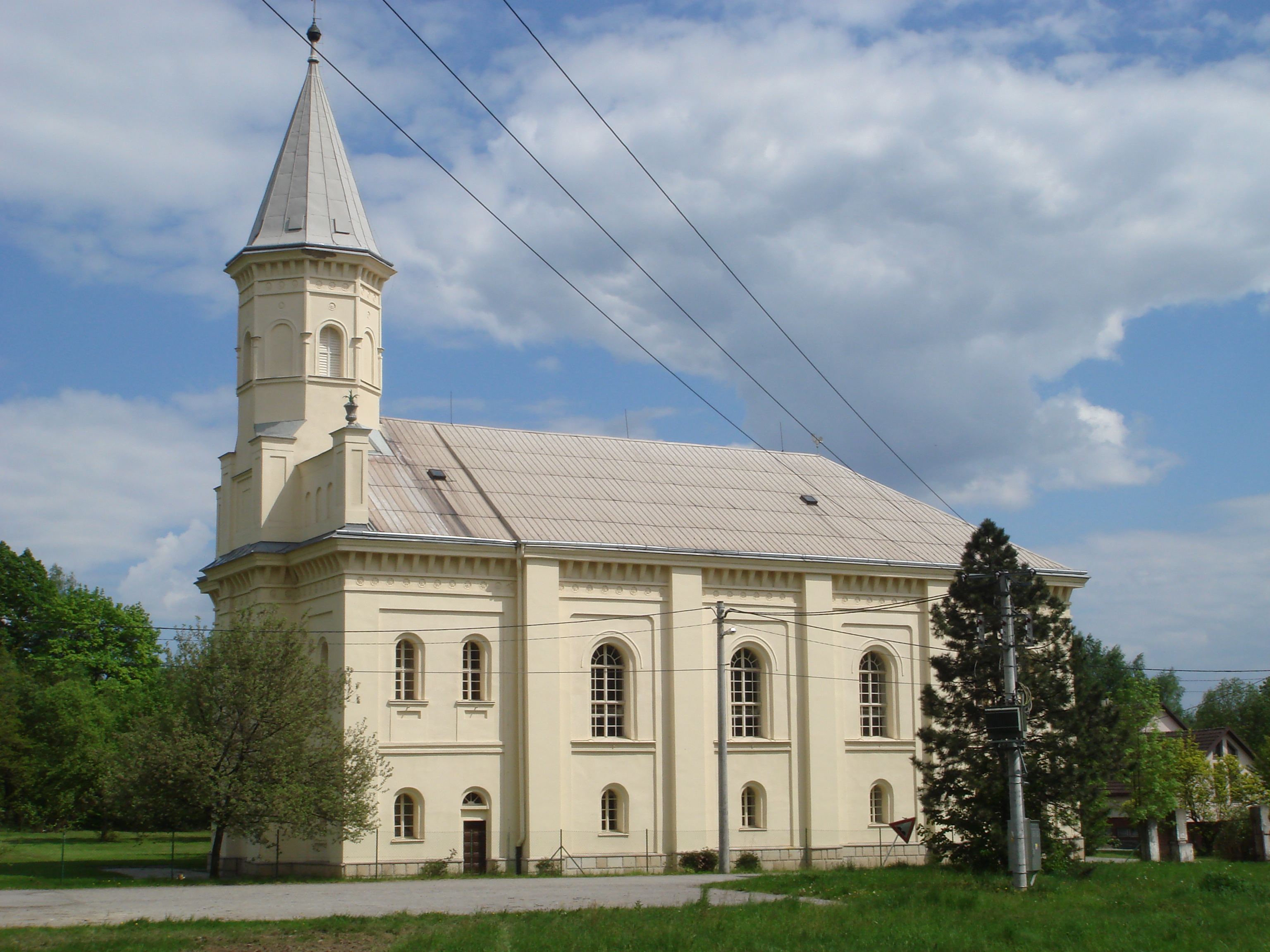 Lutheran church in Orlová (Moravian-Silesian Region, Czech Republic).